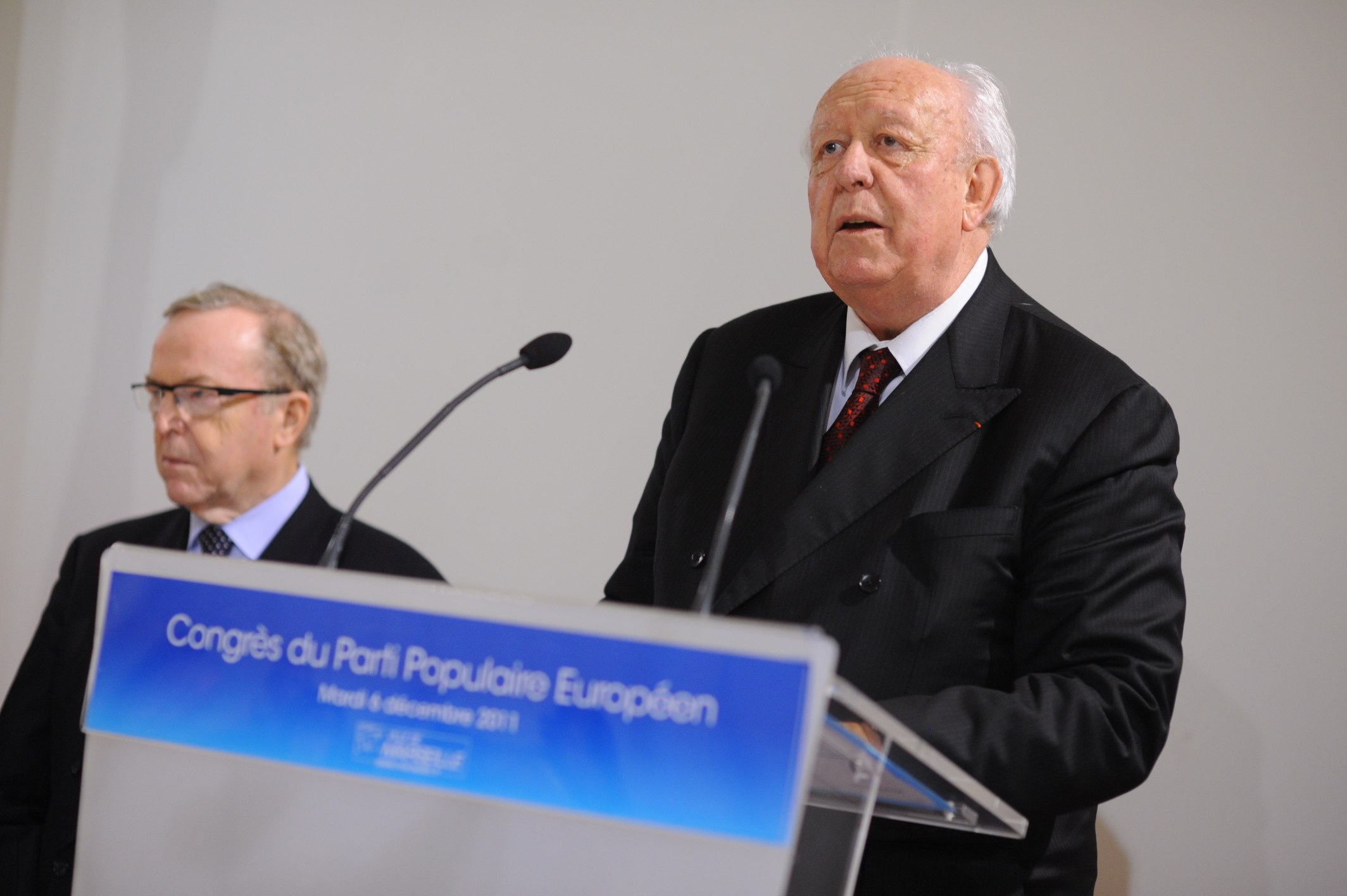 Political Assembly, Marseille